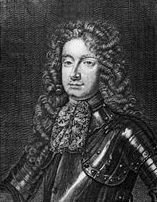 William Cavendish, 1st Duke of Devonshire